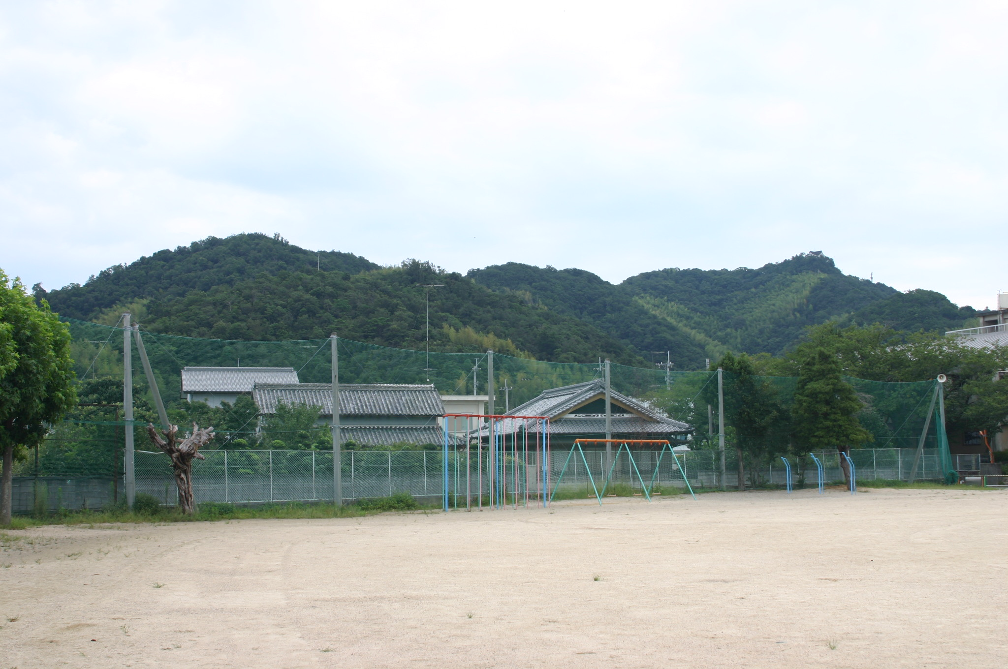 Mount Hinomine (Hinominesan) viewed from Chiyo Elementary School in Komatsushima, Tokushima, Japan